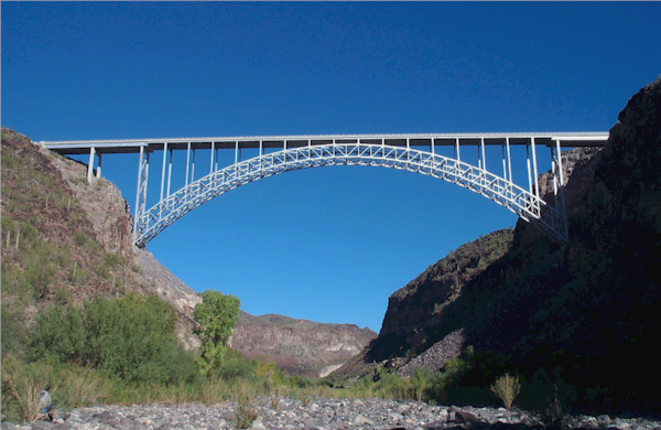 Burro Creek Bridge in Wikieup, Arizona, United States